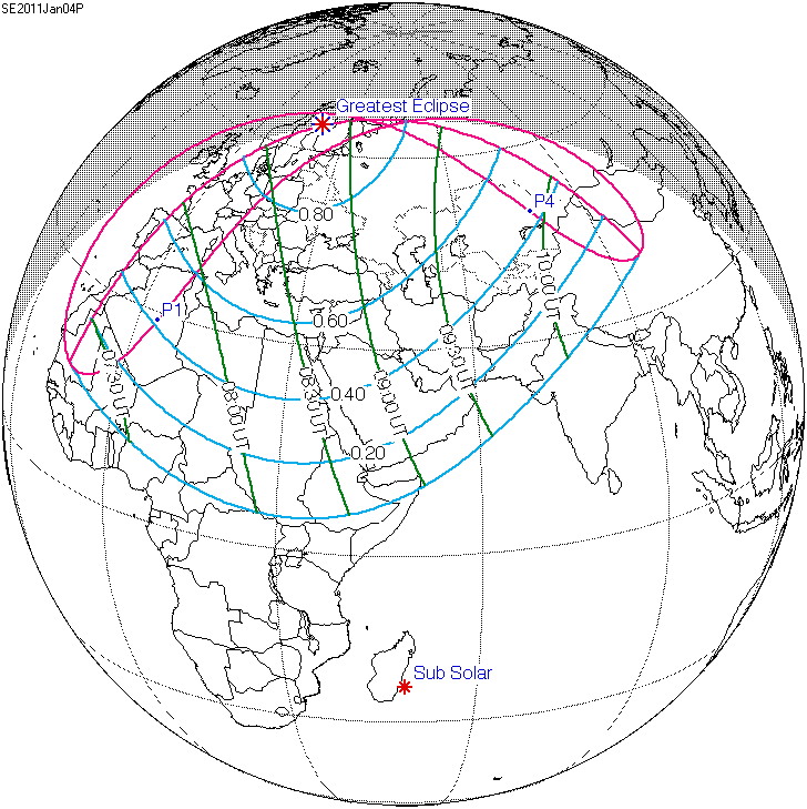 Solar eclipse of 2011 January 4